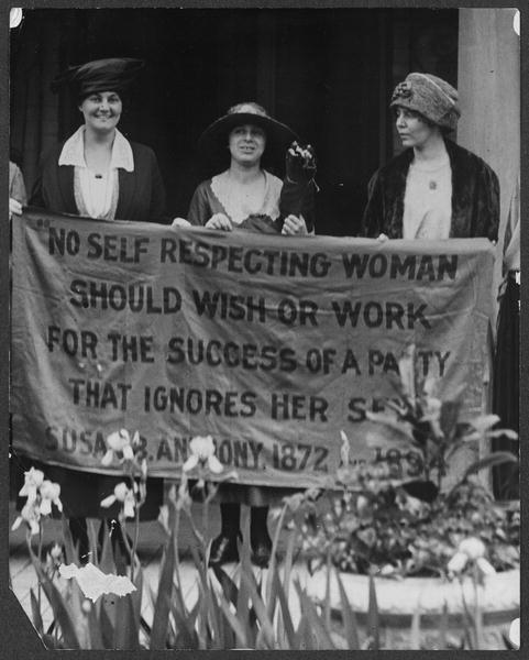 Photograph of Kenyon Hayden Rector, Mary Dubrow, and Alice Paul standing outside the 1920 Republican Convention in Chicago and holding a banner, "No self respecting woman should wish or work for the success of a party that ignores her sex. Susan B. Anthony, 1872."